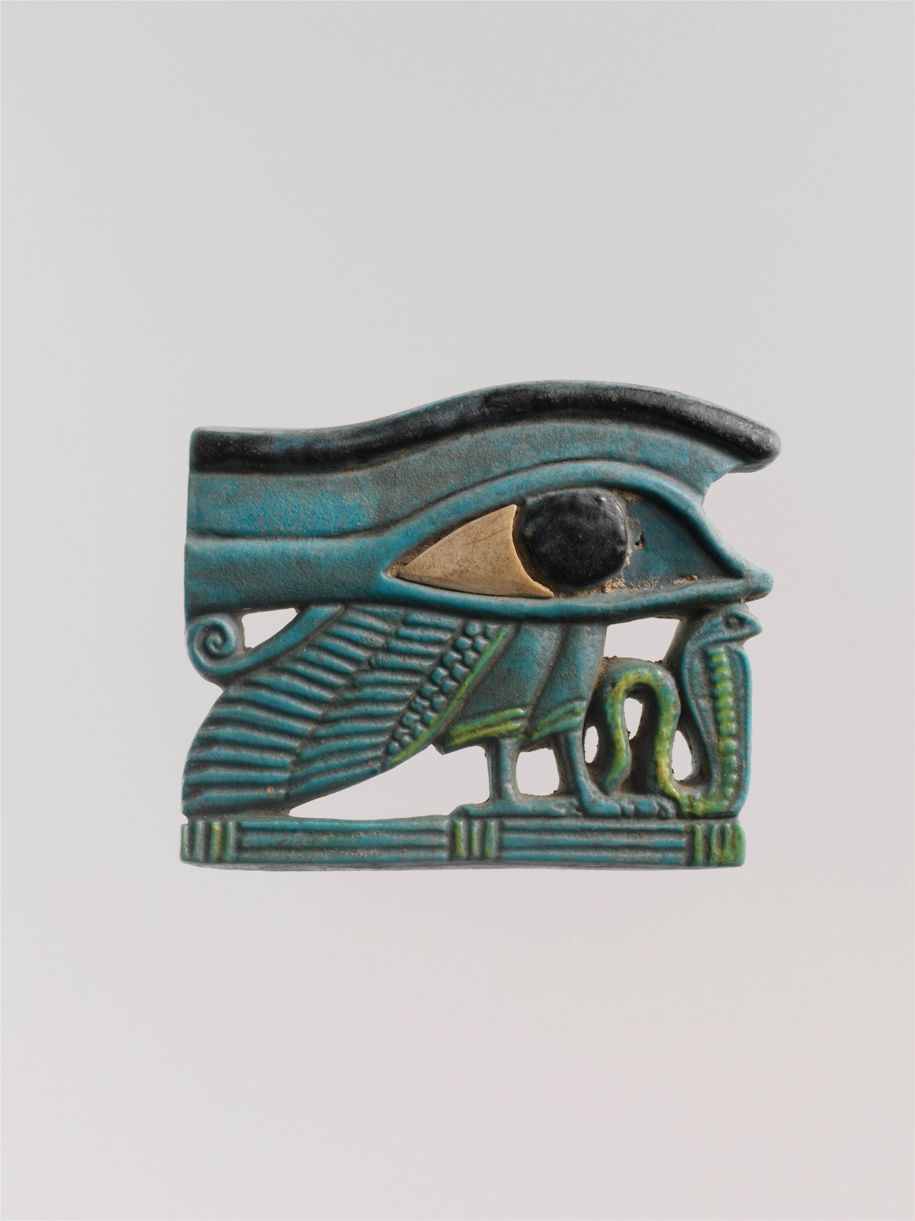 Amulet, Wedjat eye